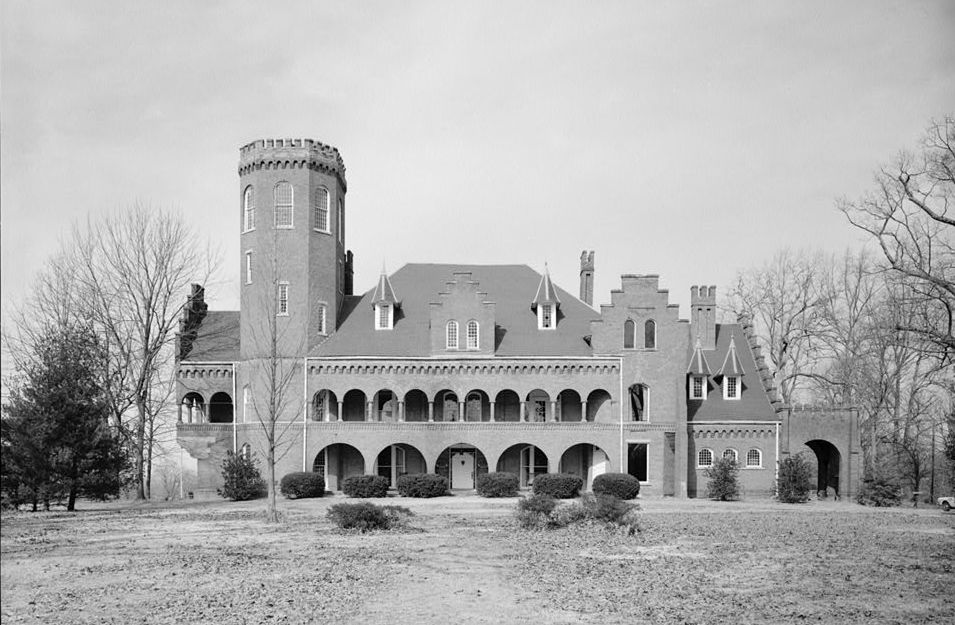 "Hundred Oaks," the former home of Arthur H. Marks, son of Governor Albert S. Marks (1836–1891), in Winchester, Tennessee, United States.